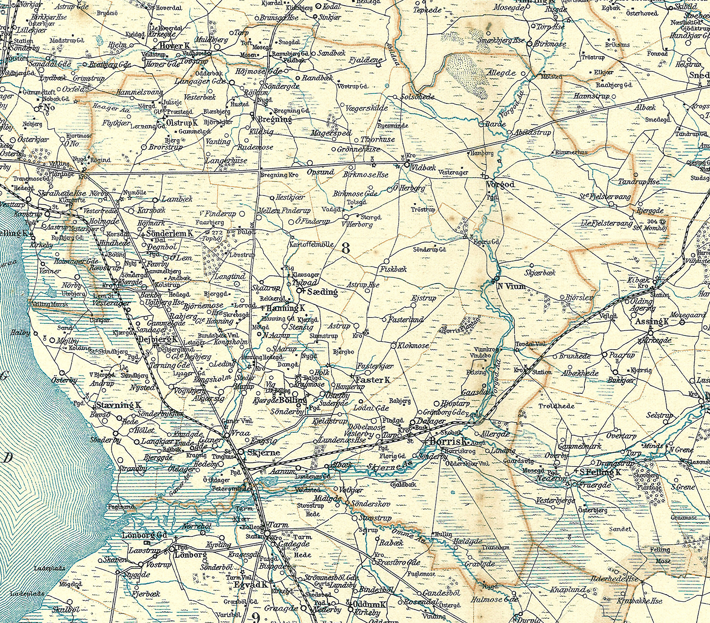 Map of Bølling Herred in the southern part of Ringkøbing County in Denmark